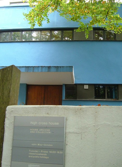 High Cross House, Dartington Built in 1931-2 by William Lescaze. The striking blue colour has been the subject of controversy since the house was first built - .